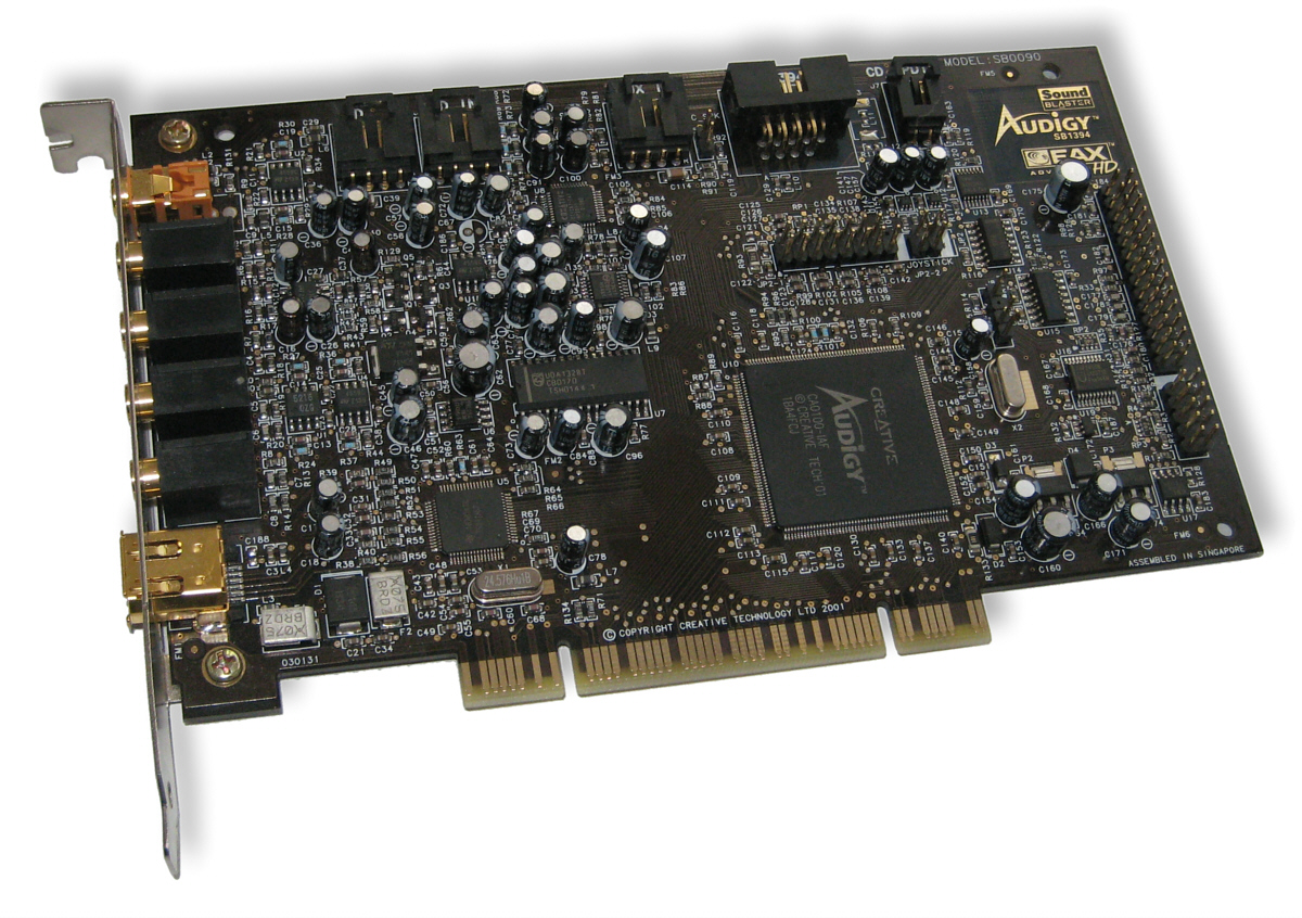 Creative Technology Sound Blaster Audigy Player soundcard - Model SB0090